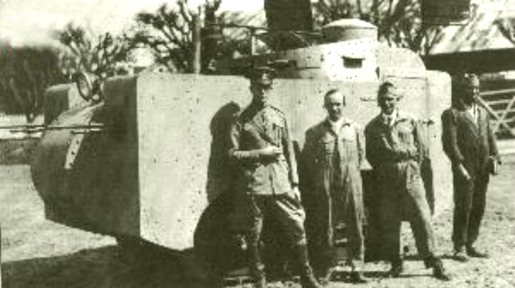 Captain of the Public Force of São Paulo Reynaldo R. Saldanha da Gama and his vehicle armored in 1932.